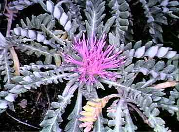 Sicilian botanical endemisms Jurinea bocconei